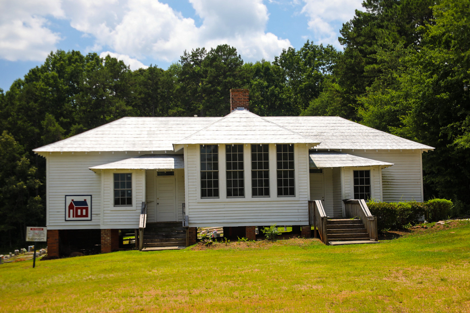 This Rosenwald School is outside of Westminster, South Carolina in Oconee Country.